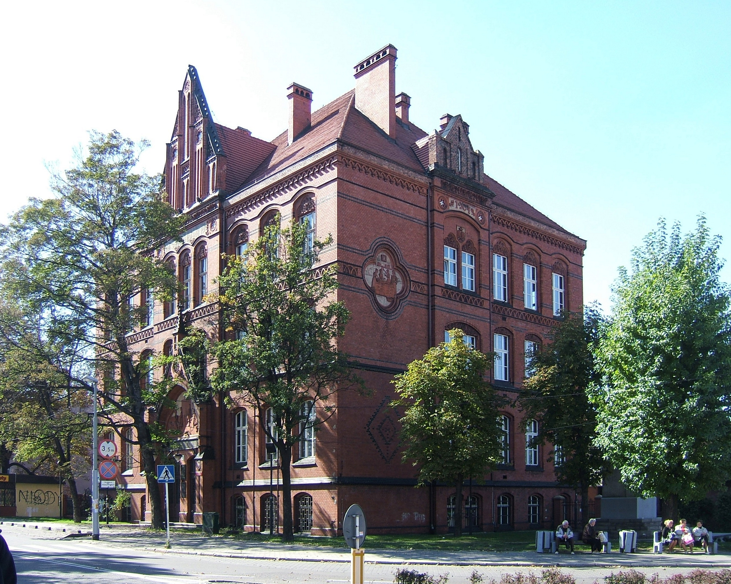 School in Szopienice.